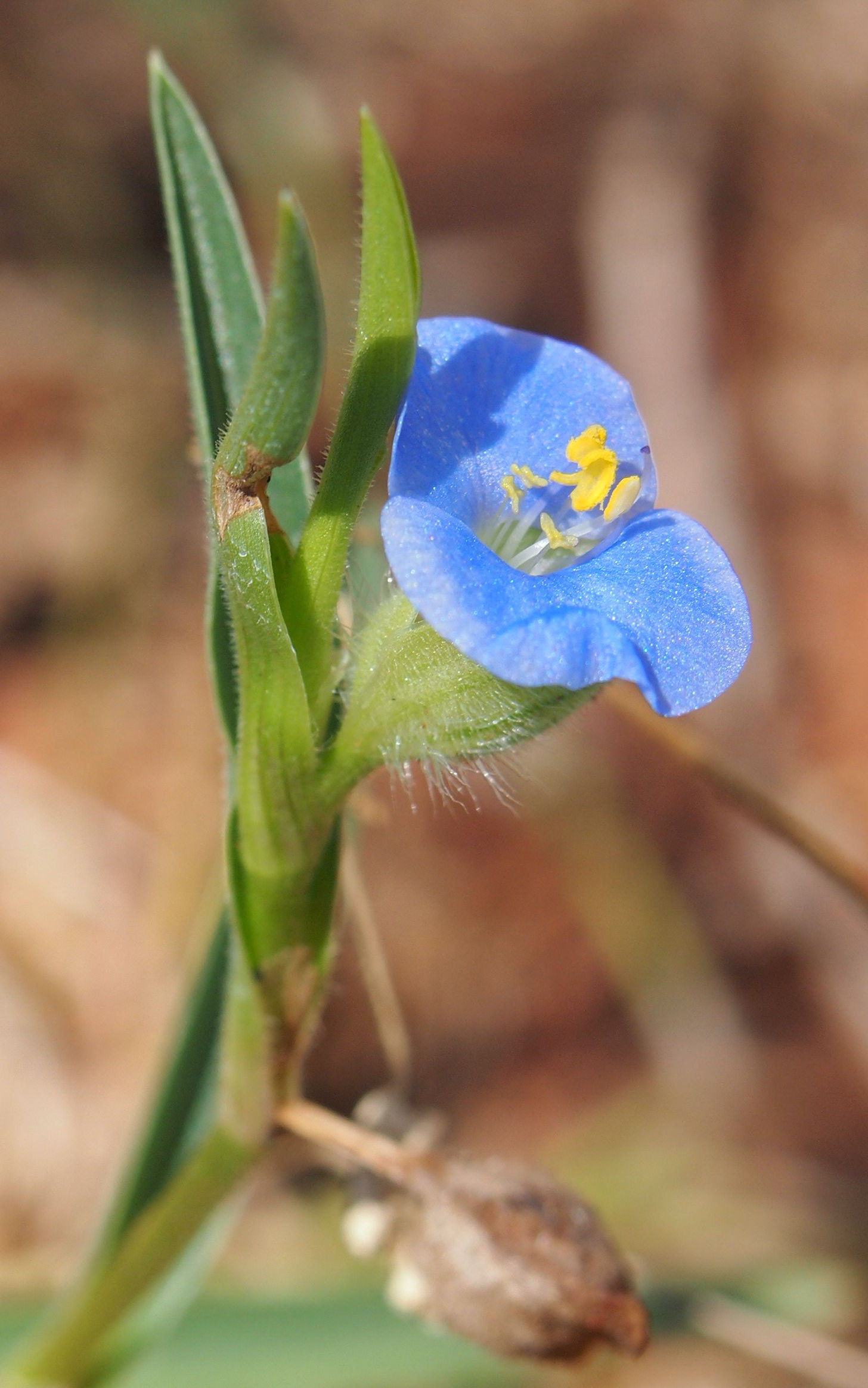 Commelina ensifolia flower